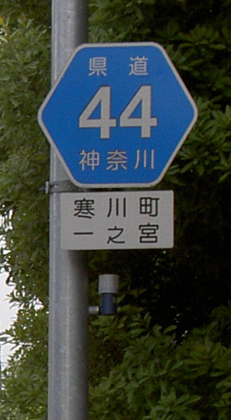 The sign plate of Kanagawa prefectural road route 44 ja: 神奈川県道44号伊勢原藤沢線の標識